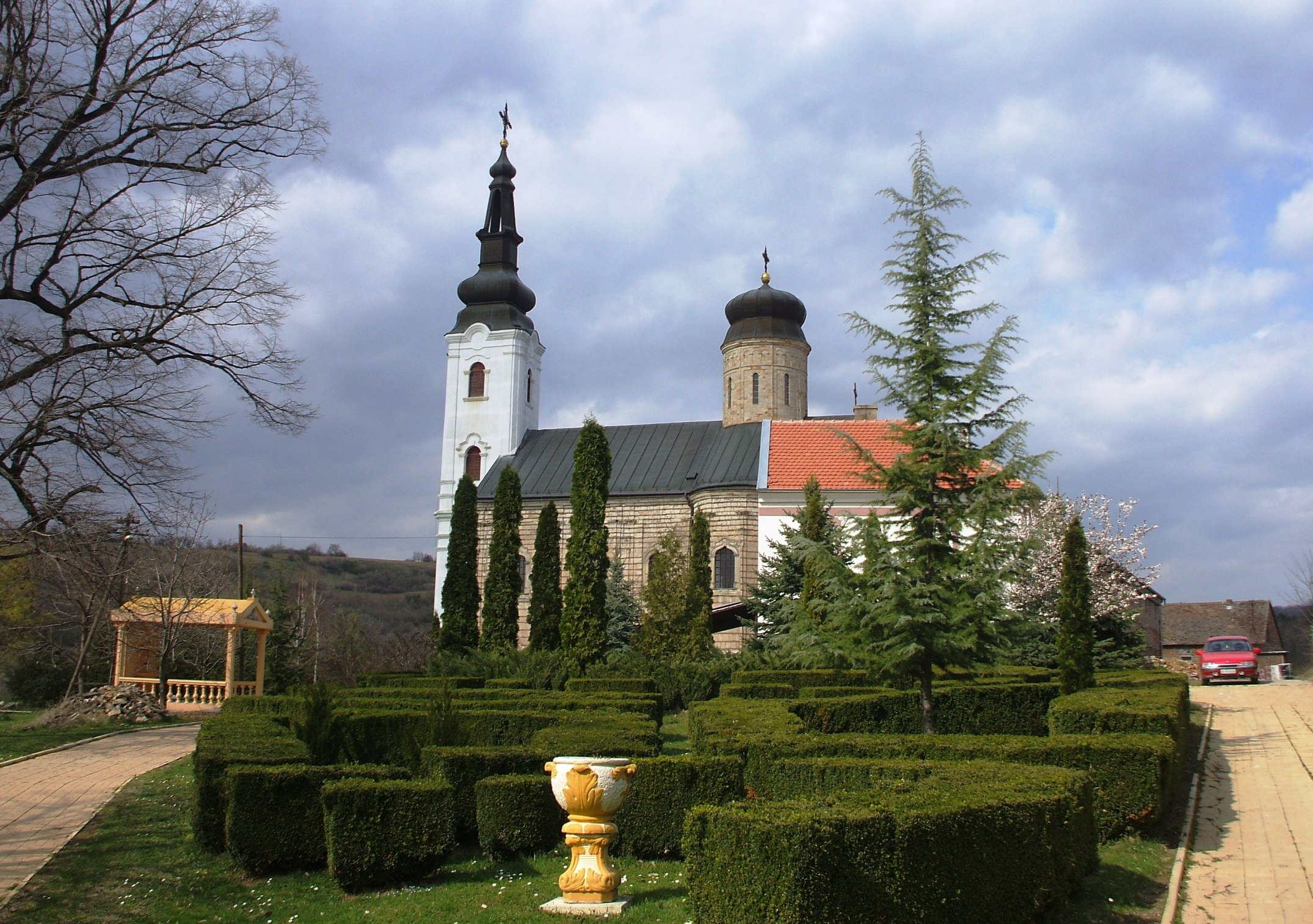 Serbian Orthodox Monastery of Šišatovac, Vojvodina, Serbia